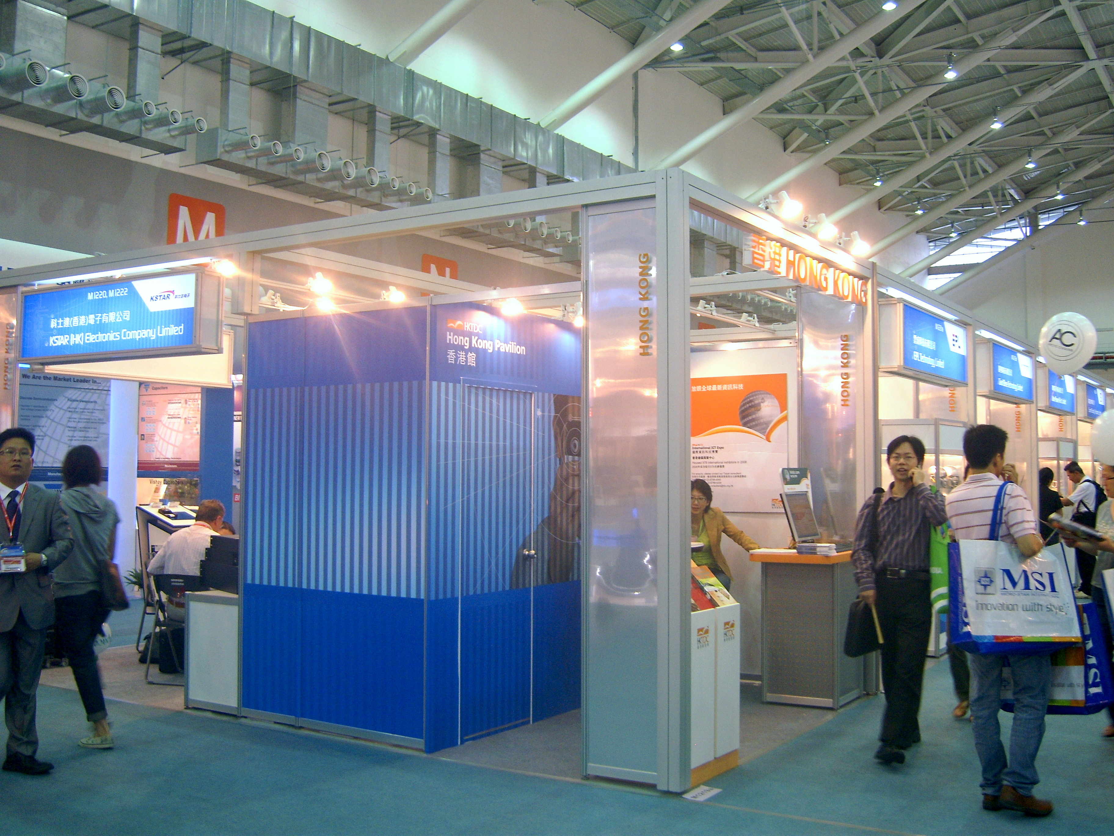 2008 Computex: Hong Kong Pavilion by Hong Kong Trade Development Council.